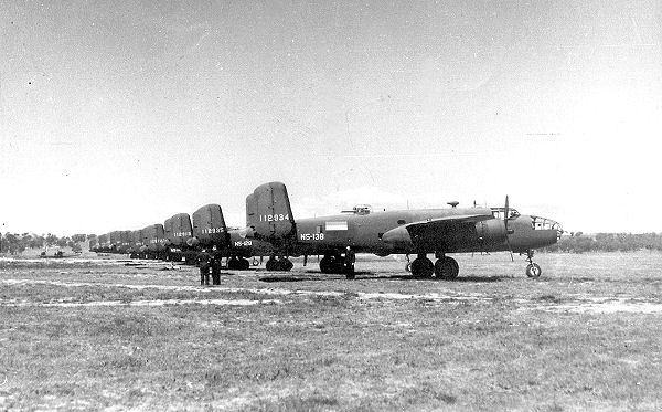 Netherlands East Indies B-25C Mitchells, Breddan Airfield, Charters Towers, Australia, March 1942. Note Netherlands flag used as insignia on fuselage.